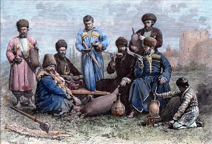 Georgian traditional costumes. Original wood engraving drawn by Pranishnikoff, engraved by Kohl. Hand watercolored. 1881